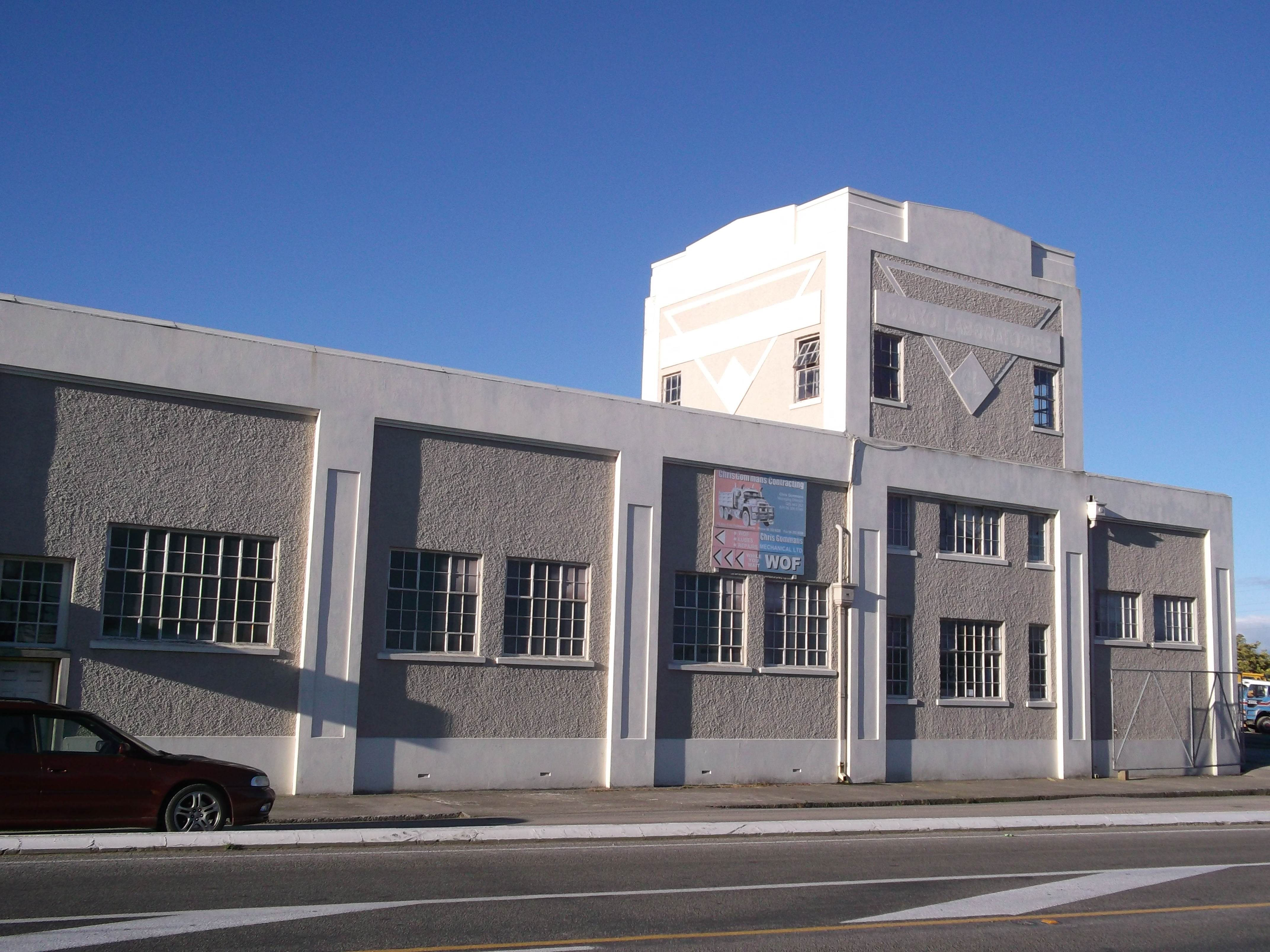 A view of the historic Glaxo factory in Bunnythorpe, New Zealand.